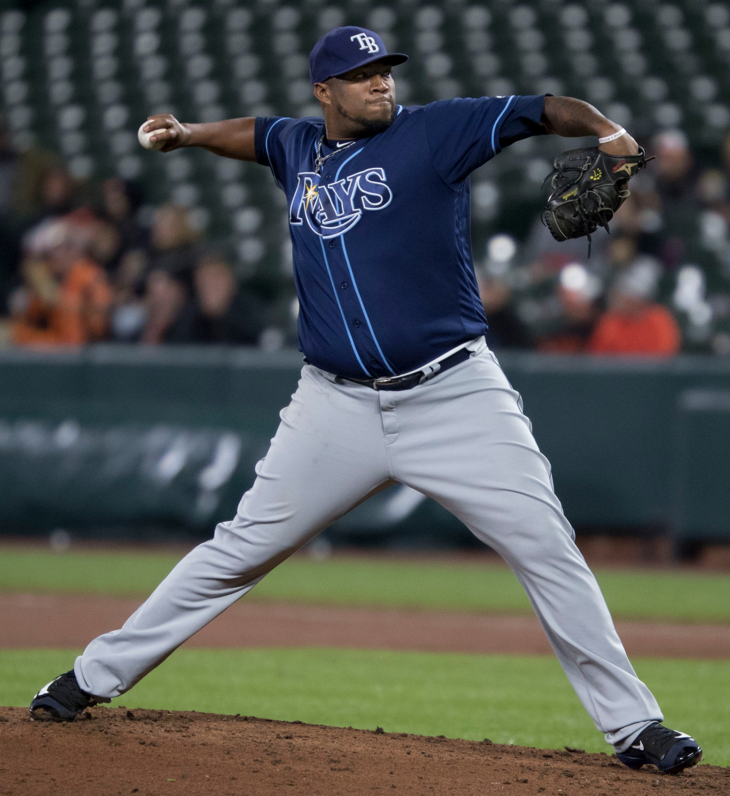 Rays at Orioles 4/25/17